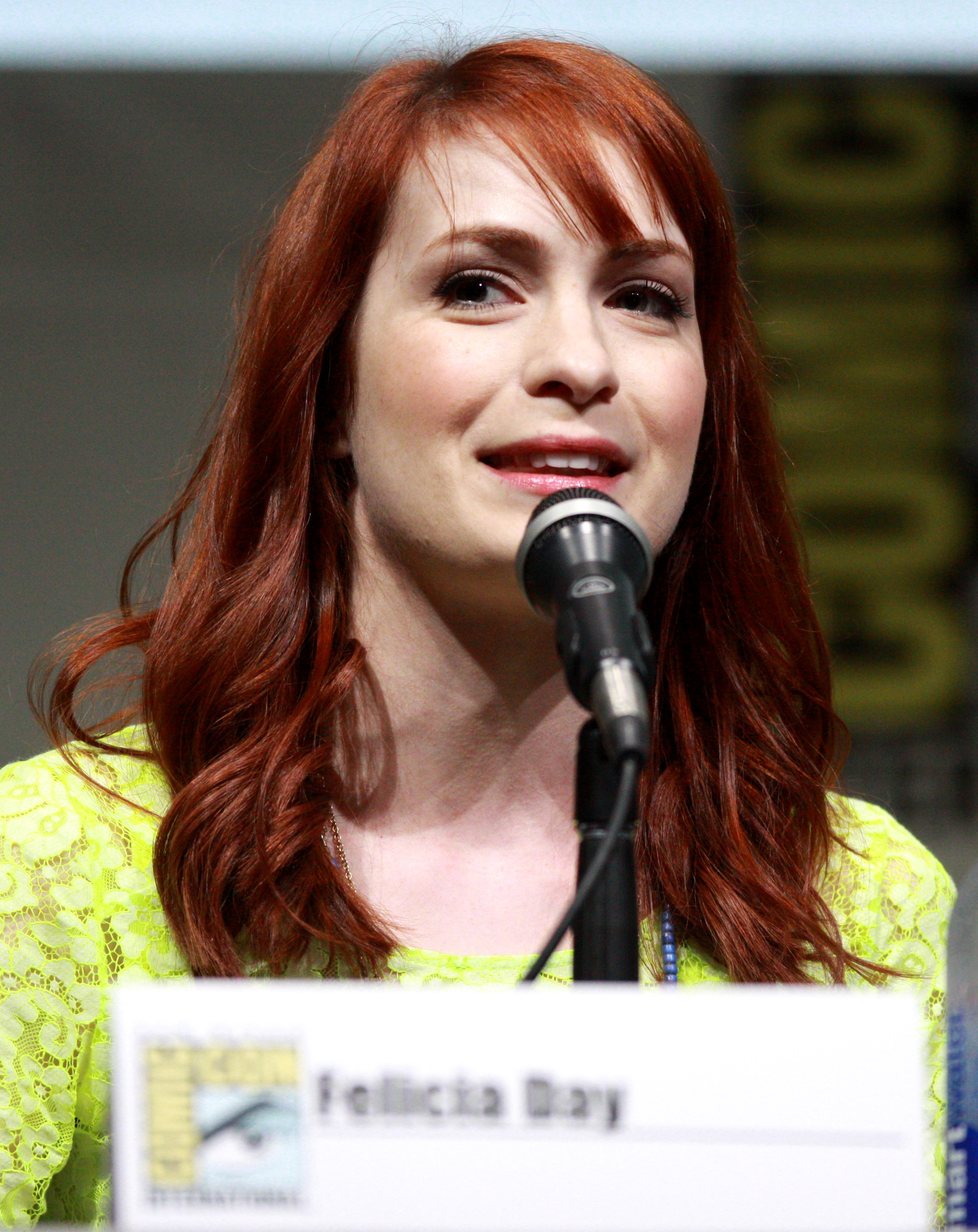 Felicia Day at the 2013 San Diego Comic Con International in San Diego, California.